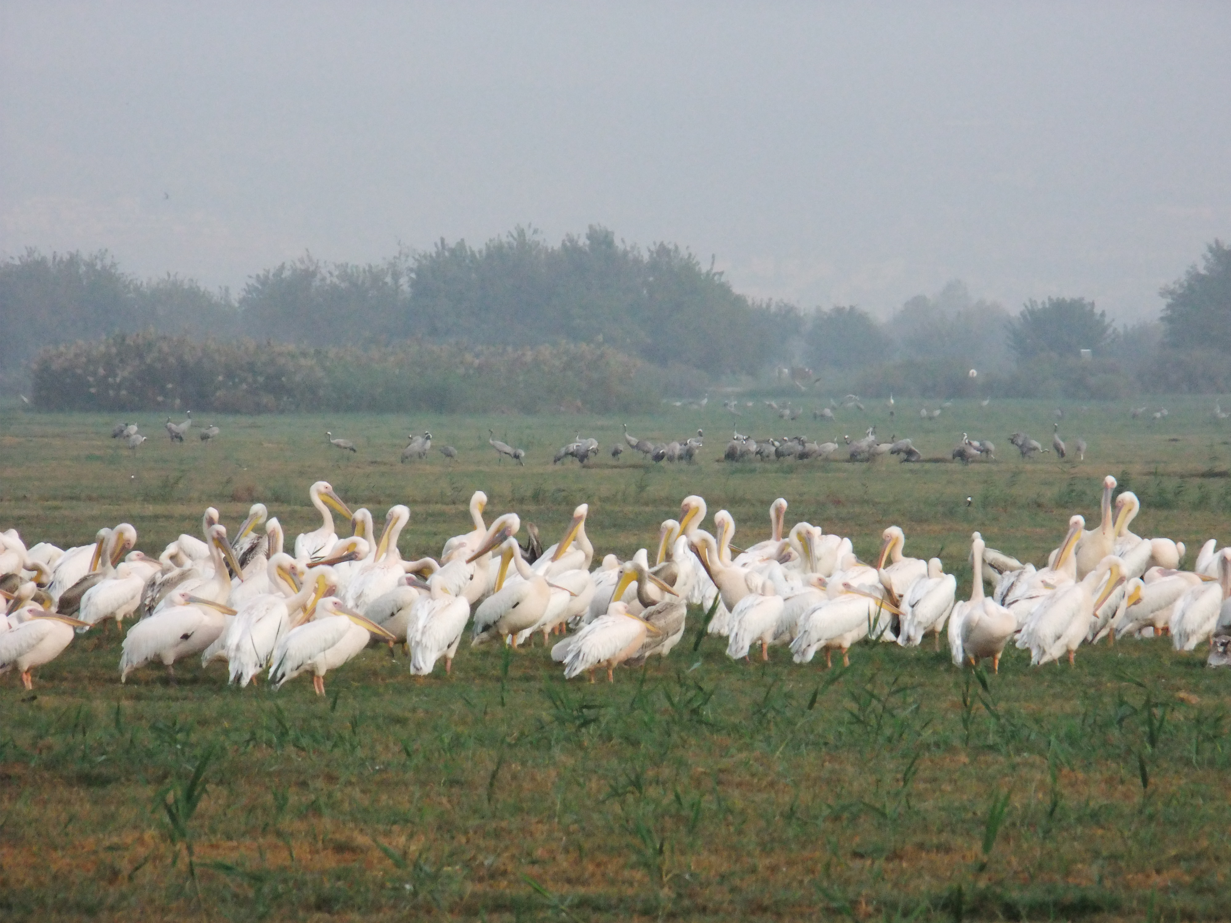 Migration season - fall 2010 Pelicans